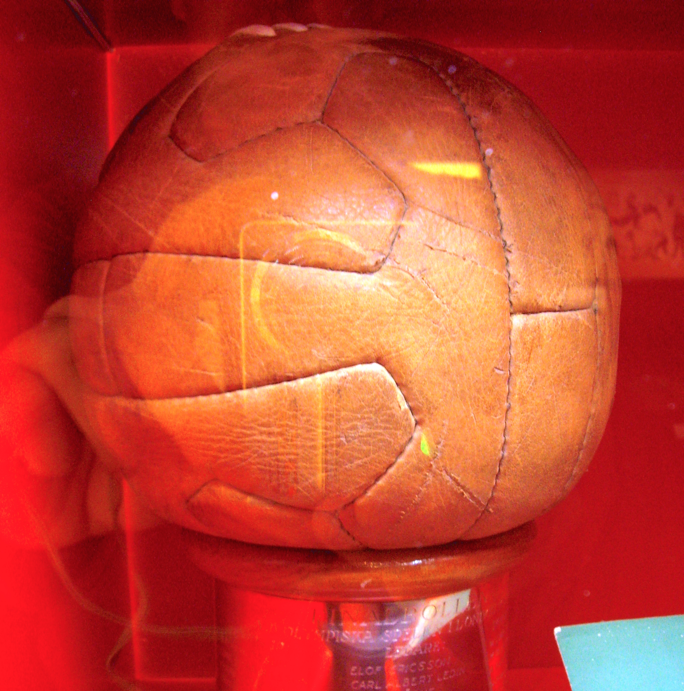 Association football used in the final match of the 1948 Olympic tournament. Photographed at the "Fenomenet Fotboll" exhibition in Kalmar läns museum.